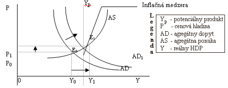 Dopytom tahaná inflacia (demand-pushed inflation)